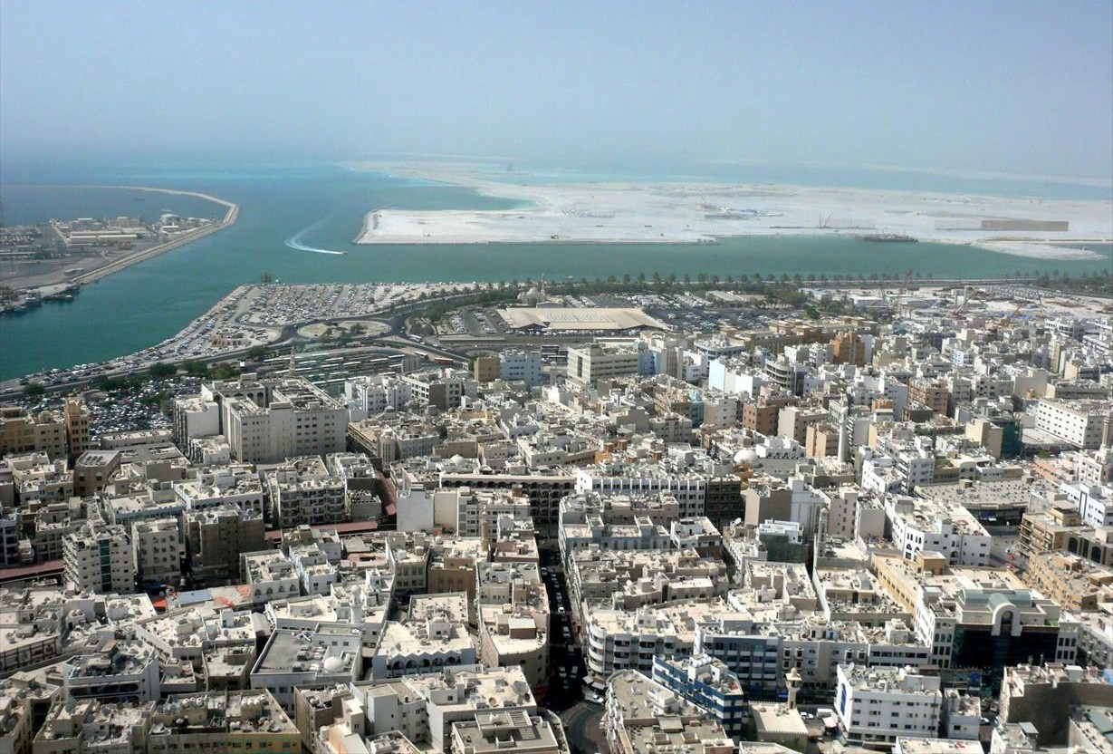 This is an aerial view of Deira, Dubai, United Arab Emirates on 8 May 2008. The area seen at the top left is Port Rashid. The water inlet on the left is the entrance to Dubai Creek. The expanse of land seen in the background is the Palm Deira. This photo was taken from a helicopter ride courtesy of Nakheel.